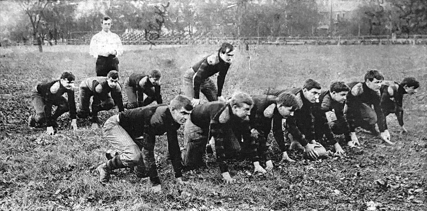 1906 Vanderbilt Commodores football team lined up on the field